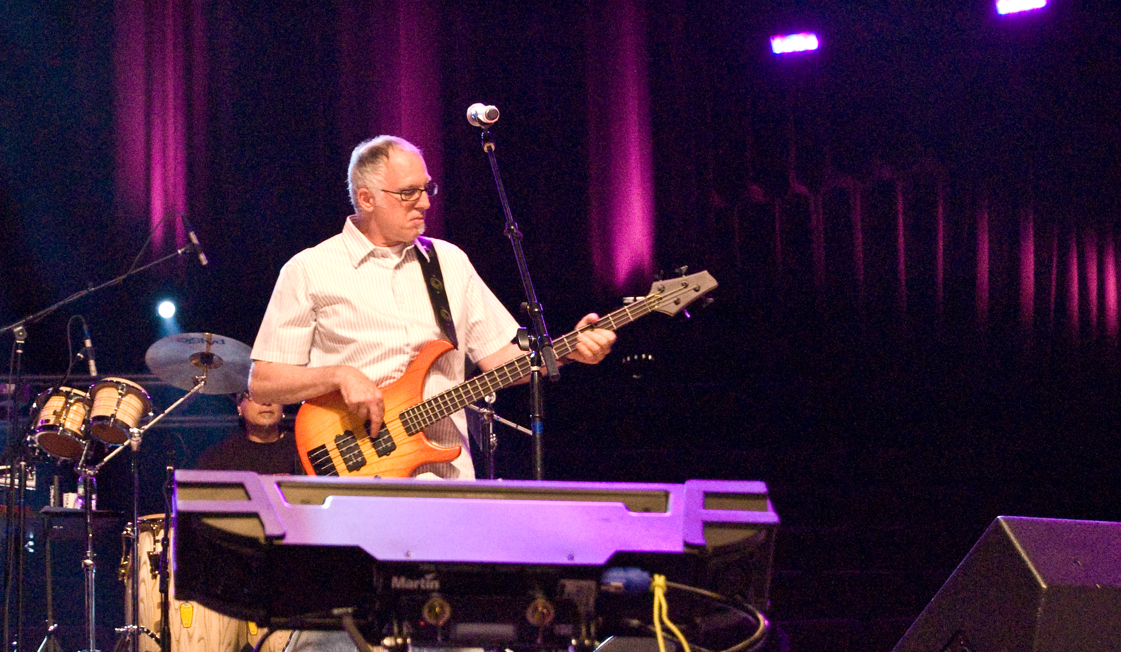 Syracuse, NY native Rick Cua at a Christian music event.